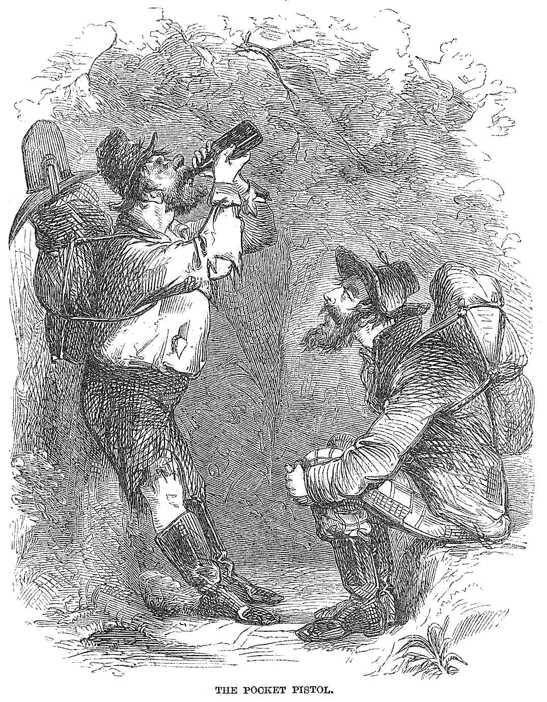 "The Pocket Pistol" (i.e., a flask of whiskey), illustration from "A Peep at Washoe" by J. Ross Browne, in Harper's Monthly Magazine, December 1860. This would be while in California en route to the Washoe Valley in what is now Nevada (then the Utah Territory).